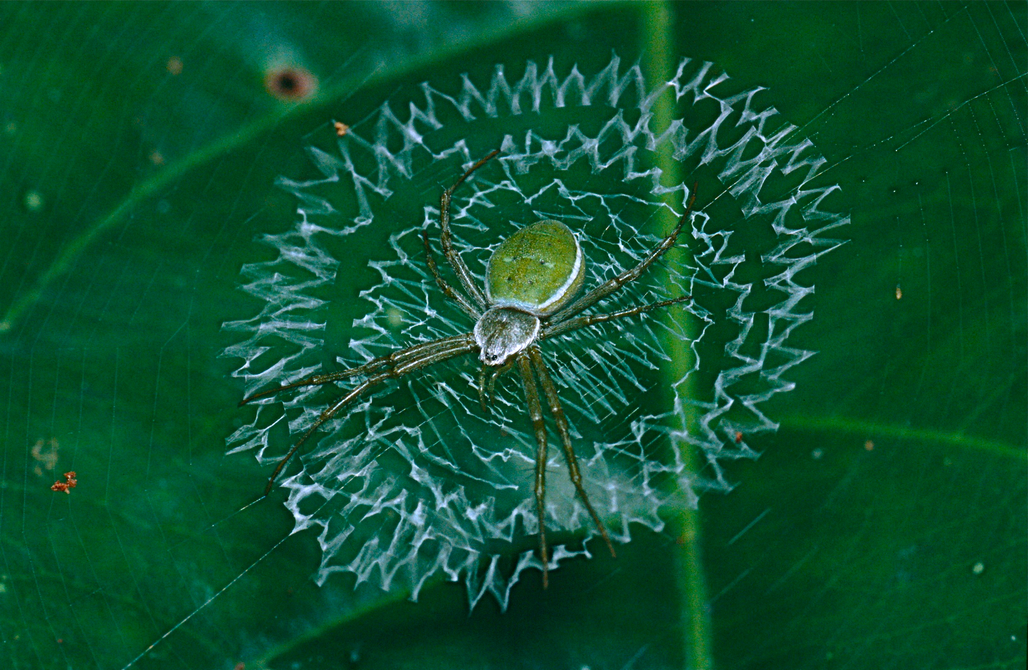 Niah Caves NP, Sarawak, MALAYSIA Scanned slide from 2001